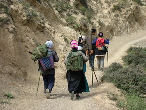 Pilgrims on the Kawa Karpo Kora circuit, Oct-2009